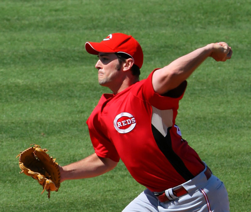 Bill Bray, spring training 2008.